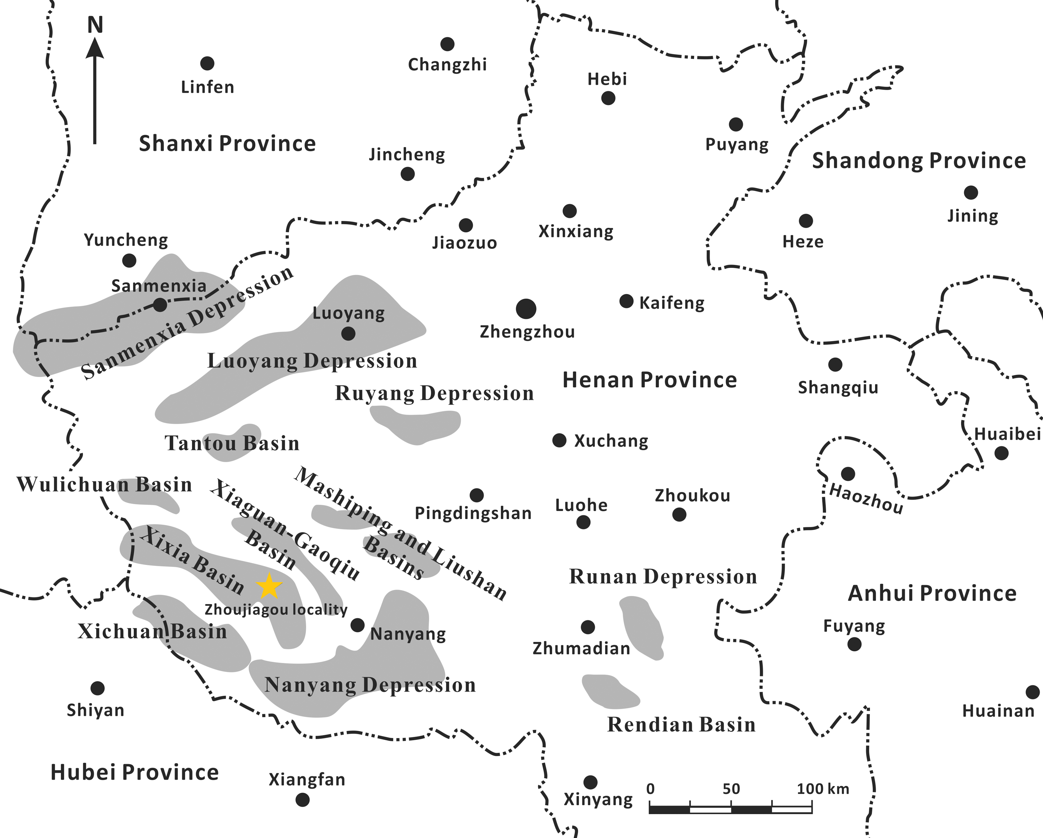 Geographic map showing the down-faulted basins and depressions (dark grey areas) of southwest Henan Province, China where Upper Cretaceous continental sediments are well developed and the locality of Zhanghenglong yangchengensis (the orange five-pointed star) in the Xixia Basin